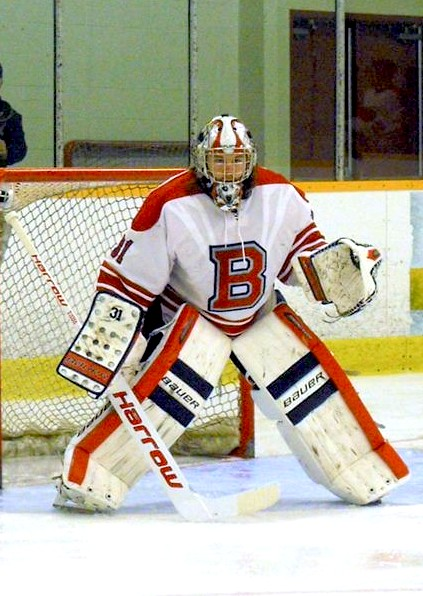 Photo taken by Devan Mighton of CIS men's hockey.